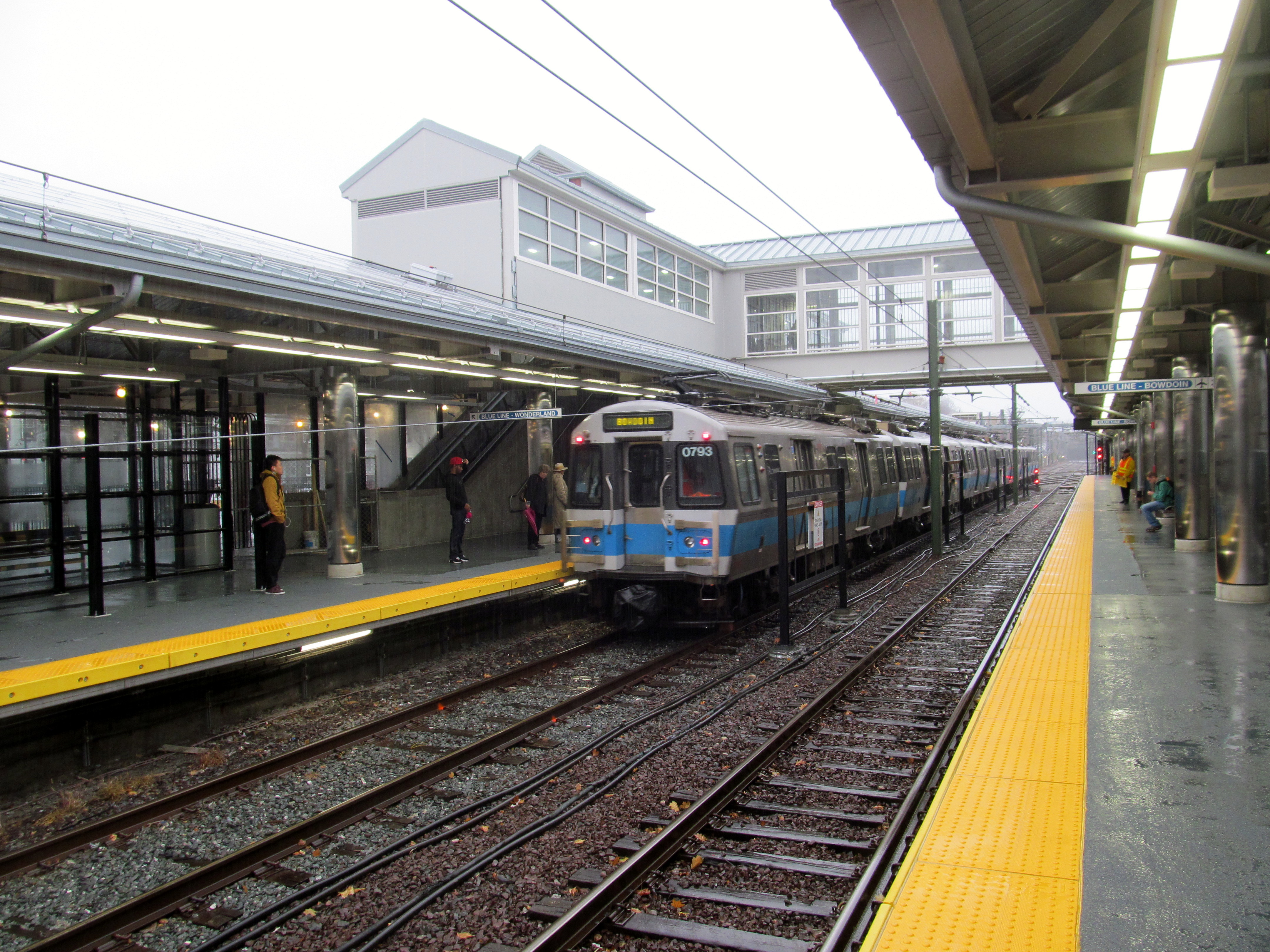 An inbound train at Orients Heights station in November 2013, one day after the new station opened after a 6-month closure.